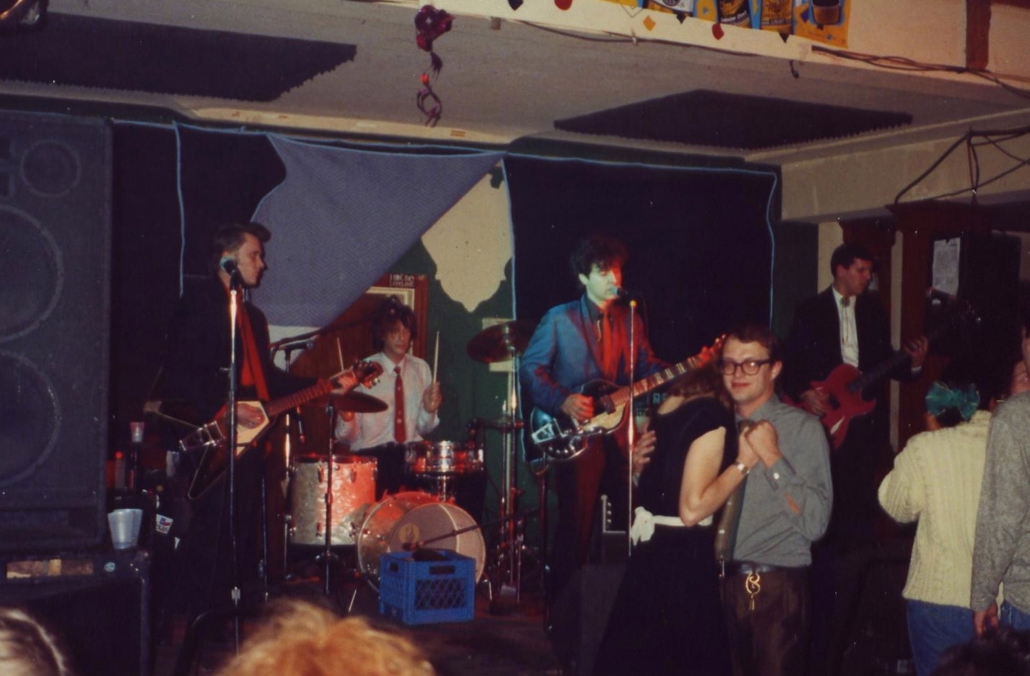 "Tav Falco & the Panther Burns" performing at "Muddy Waters" club in New Orleans